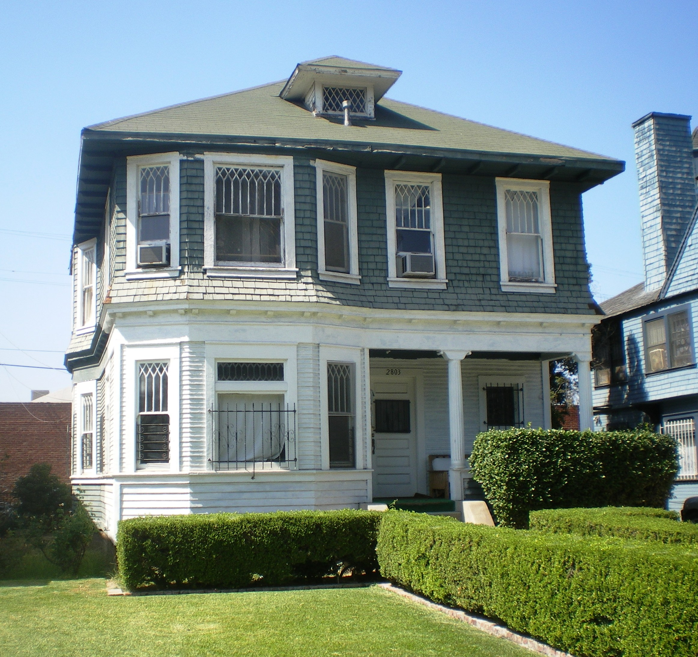 House at 2803 South Menlo Avenue, Los Angeles, California (South Menlo Avenue Historic District)